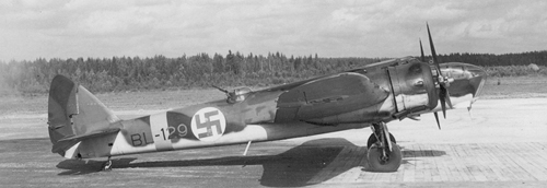 Bristol Blenheim BL-129 of ValokLtue Ahtiainen/LeLv 44